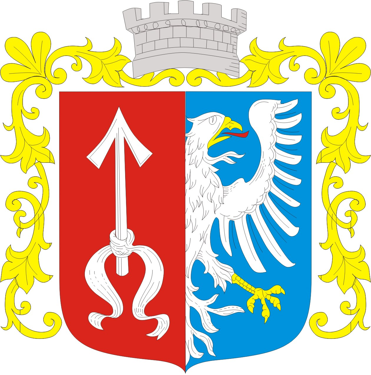 Štramberk – The left side of the coat of arms of the town is that of an ancient Czech family, the Benešovice (founded in the 11th century) –a curled silver arrow in a red field, the right side the coat of arms of Moravia - a silver and red chequered eagle in a blue shield.